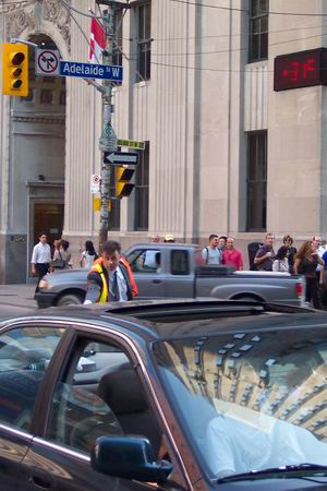 Blackout: volunteer traffic cop on Bay and Adelade Streets, Toronto, Ontario, Canada during en:2003 North America blackout (c) Jason Pang 2003